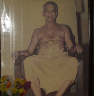 This is the original photo os Sastriji.